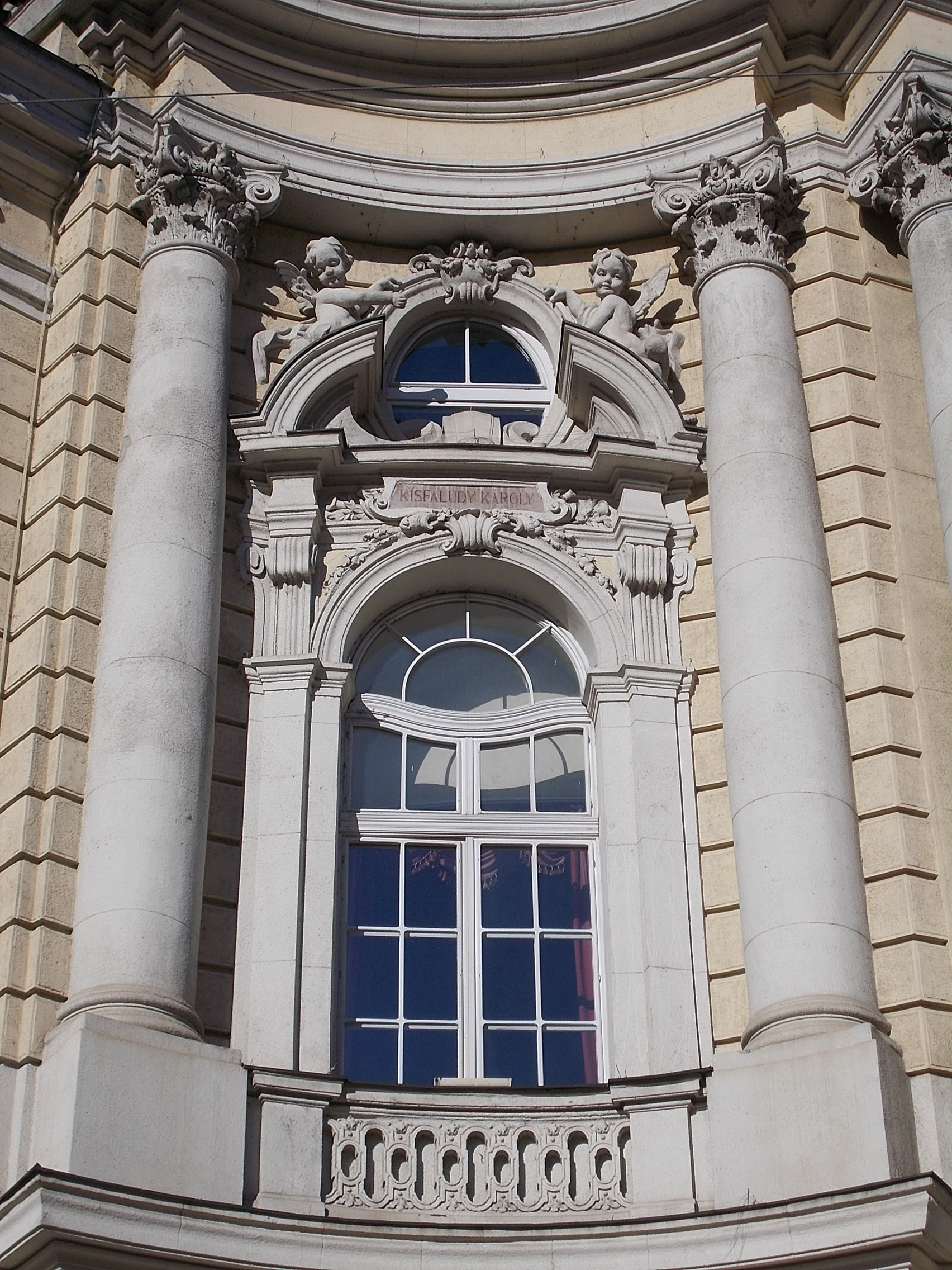 Comedy Theatre. Listed -8361. Built: 1896. Architects: Ferdinand Fellner, Hermann Helmer. - Szent István street, Budapest District XIII., Hungary